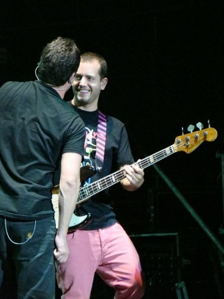 Chema Ruiz en Caracas